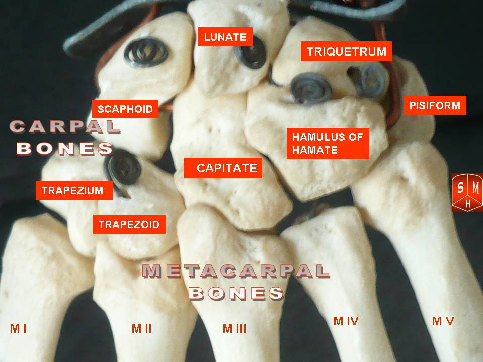 Carpus